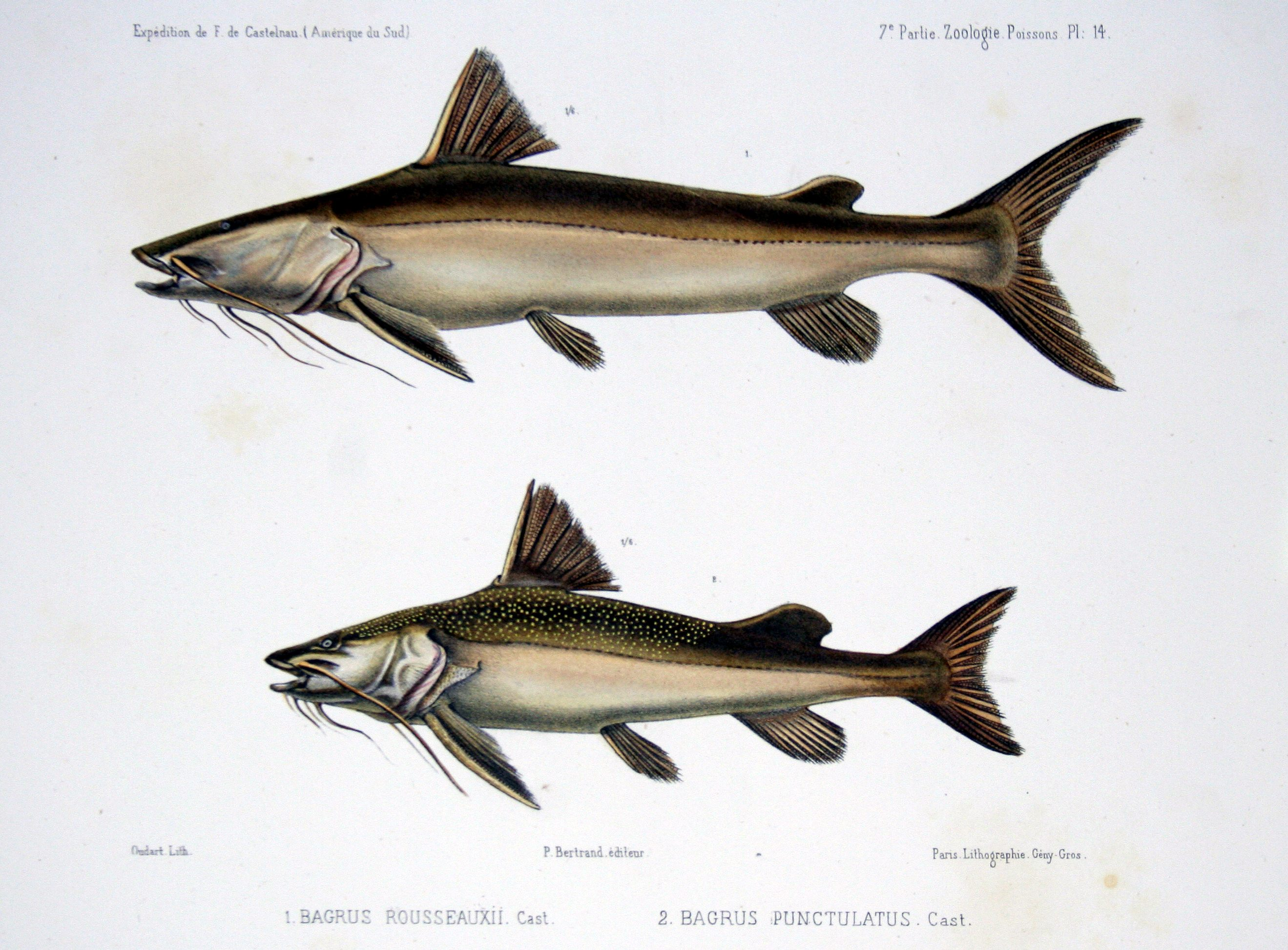 From top to bottom: Bagrus rousseauxii = Brachyplatystoma rousseauxii Bagrus punctulatus = Brachyplatystoma sp.